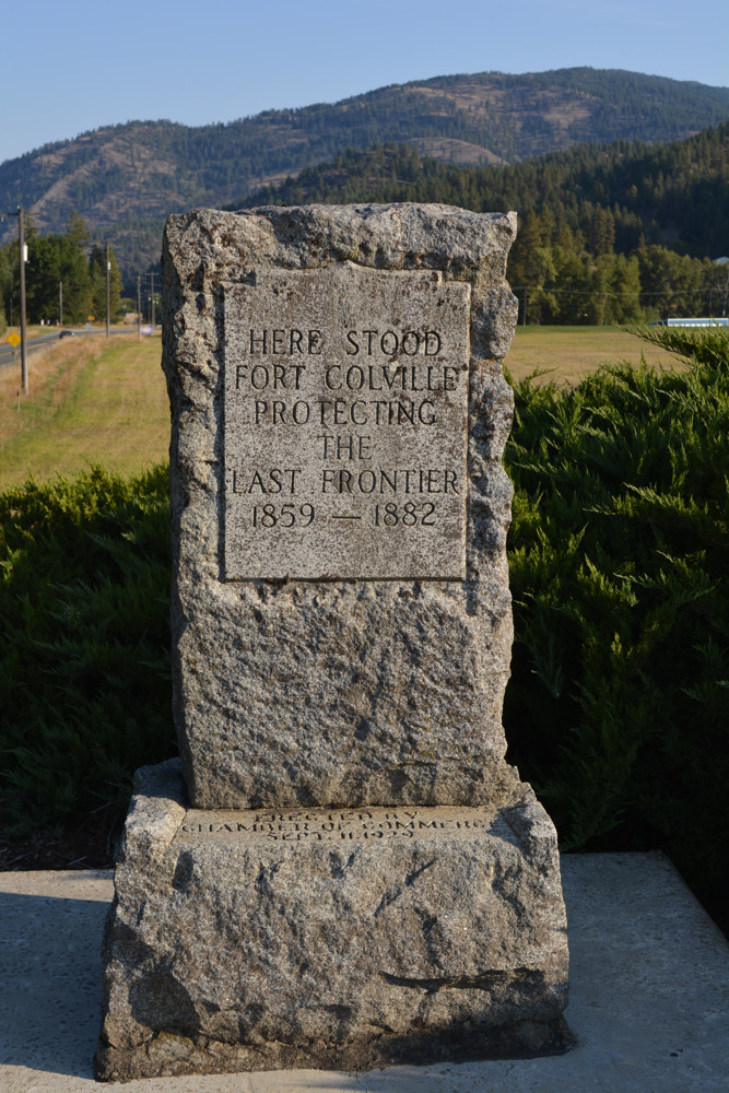 Fort Colville Monument with Old Town Mountain in background. Stevens County, Washington HERE STOOD FORT COLVILLE PROTECTING THE LAST FRONTIER 1859 – 1882 bottom: ERECTED BY CHAMBER OF COMMERCE SEPT. 11, 1929 - barely visible from this angle (possible transcription errors)